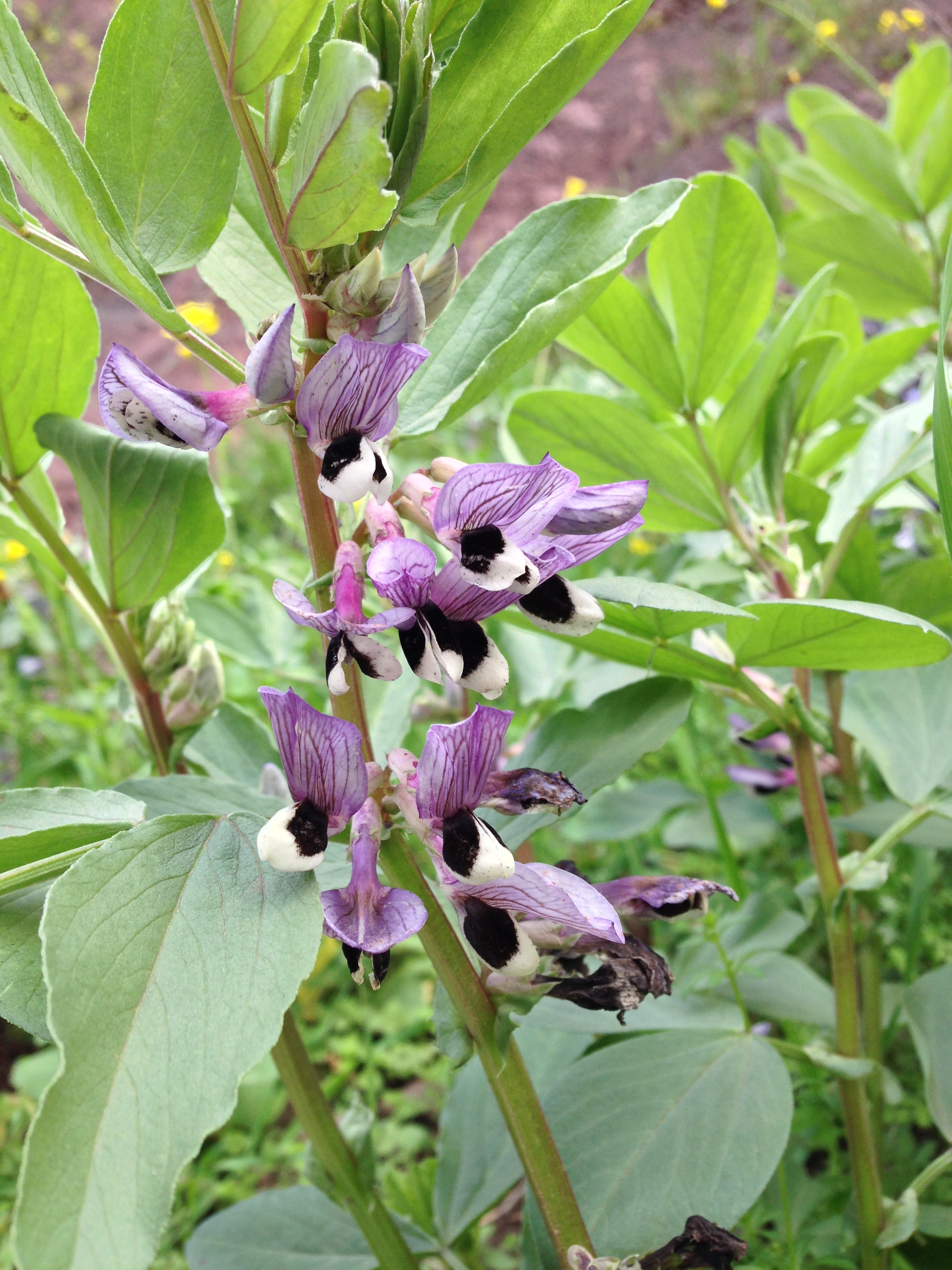 Vicia faba flower